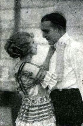 American actors Betty Francisco and Wallace Reid, page 29 of the January 1921 Film Fun.